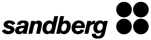 Logosign/trademark of German guitar manufacturer Sandberg.